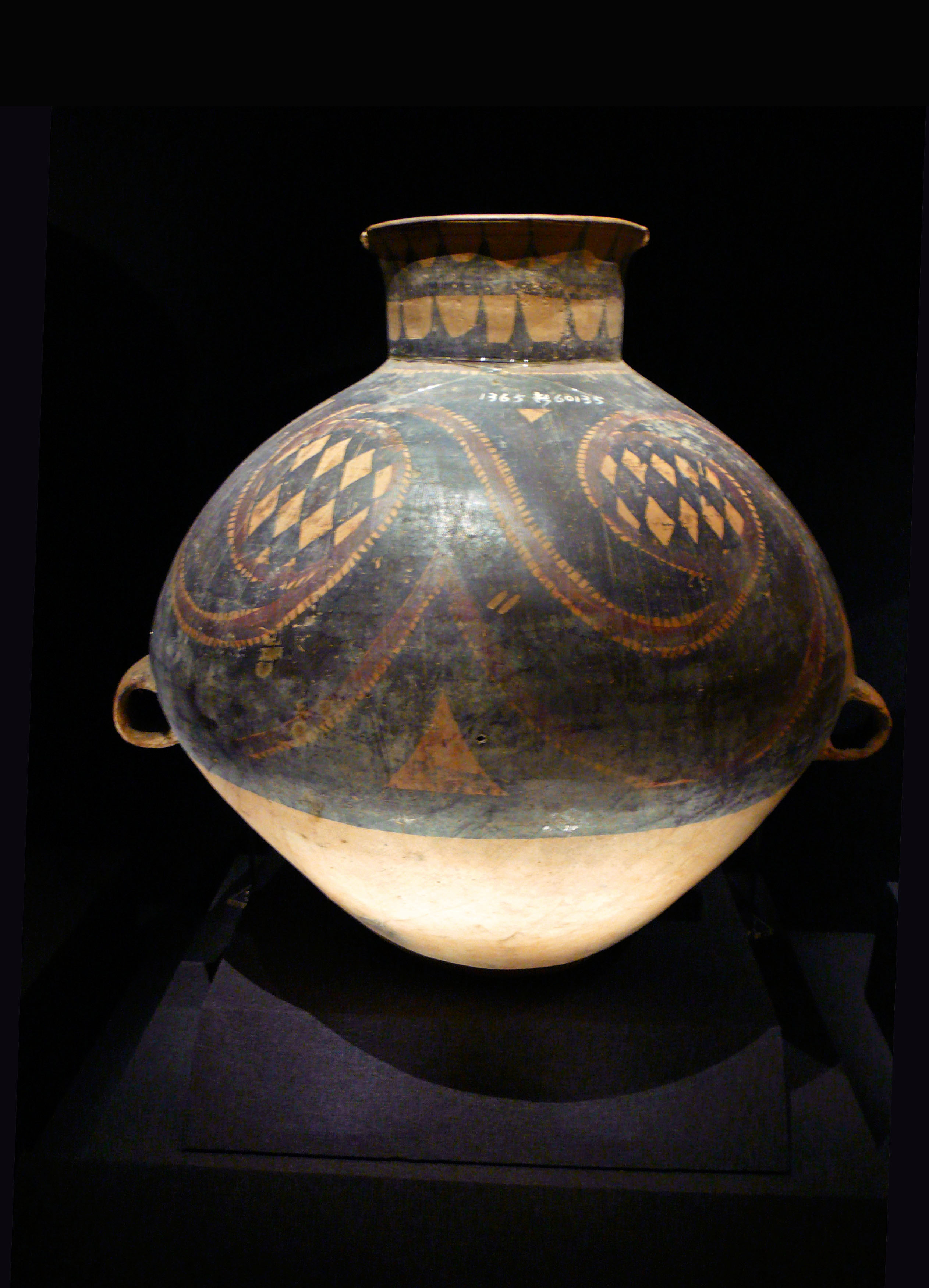 Palace Museum, Beijing. Originally uploaded to: Painted pottery pot of Majiayao Culture Neolithic era, 2200-2000 B.C. Majiayao culture is a group of Neolithic communities who lived primarily in the upper Yellow River region in Gansu and Qinghai, China. The culture existed from 3100 BC to 2700 BC.